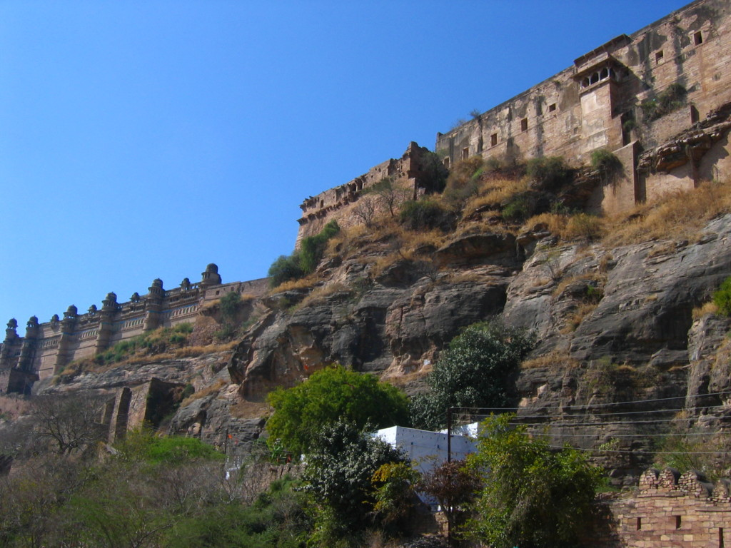 View of the fort at Gwalior (Madhya Pradesh, India)